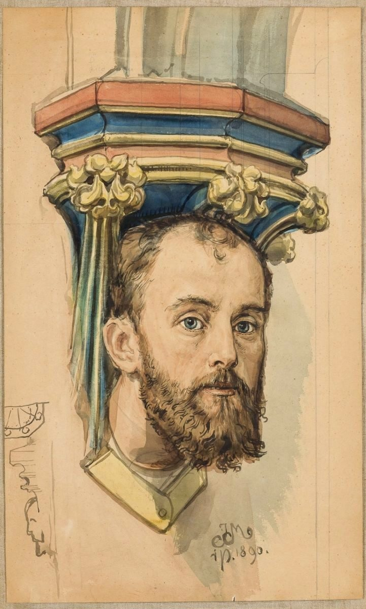 Tadeusz Stryjenski's head as a corbel in St. Mary's Basilica, Kraków, watercolor painting, 65,5 x 64 cm